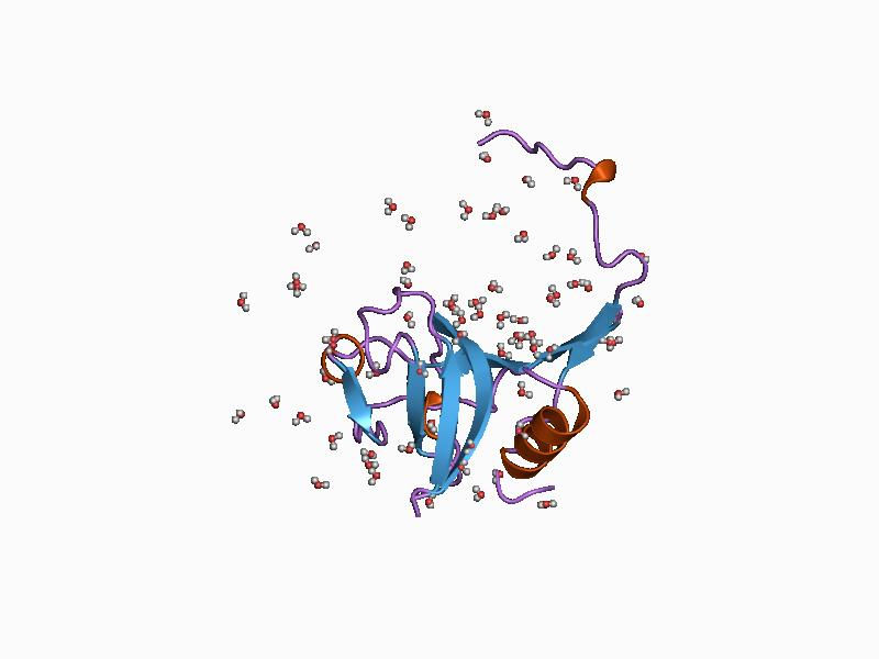 Cartoon representation of the molecular structure of protein registered with 1cjl code.